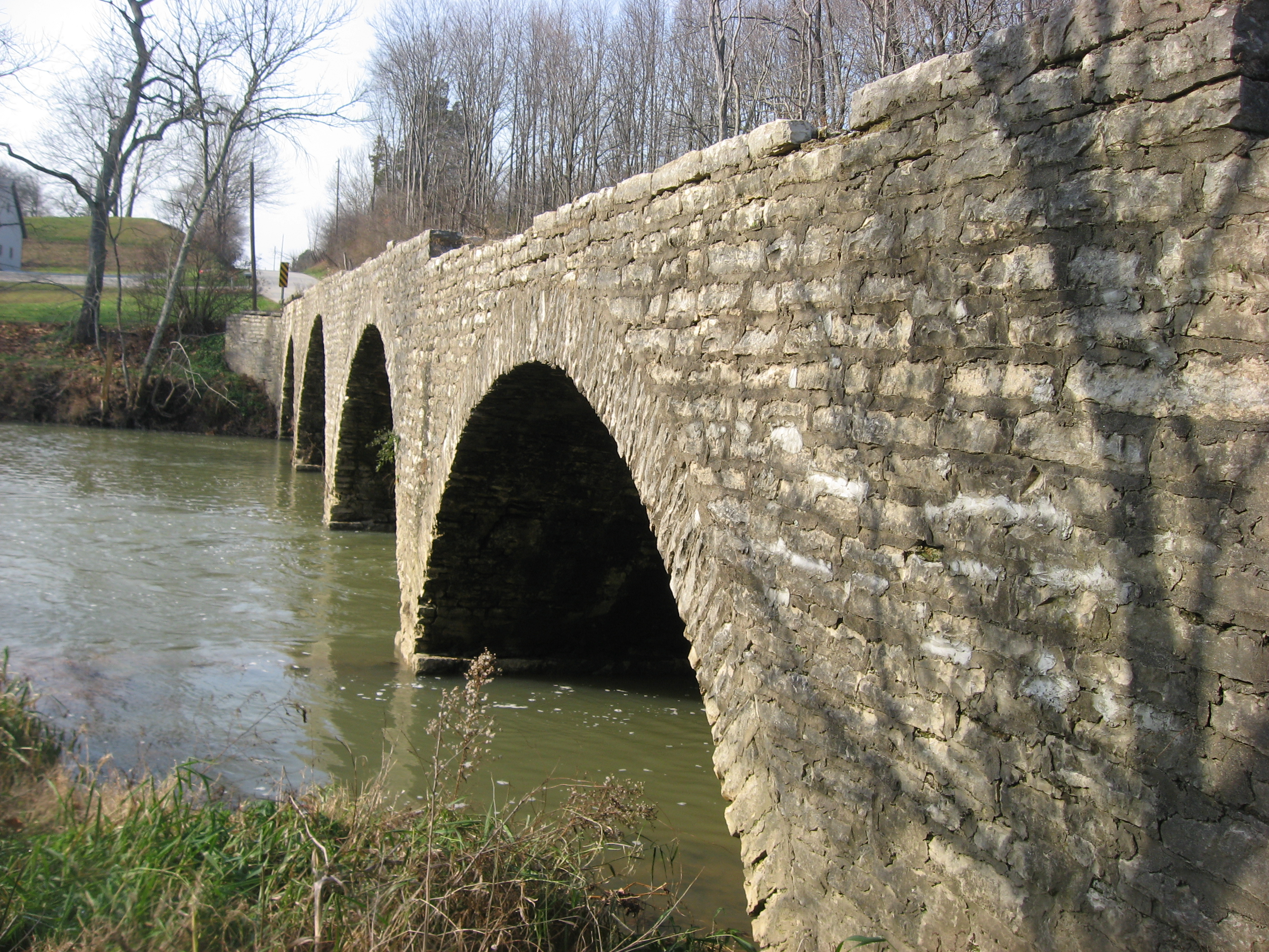 Southern (downstream) side of the Champ's Ford Bridge, which carries Road 100S over Clifty Creek west of Burney in Clay Township, Decatur County, Indiana, United States. Built in 1904, it is listed on the National Register of Historic Places.